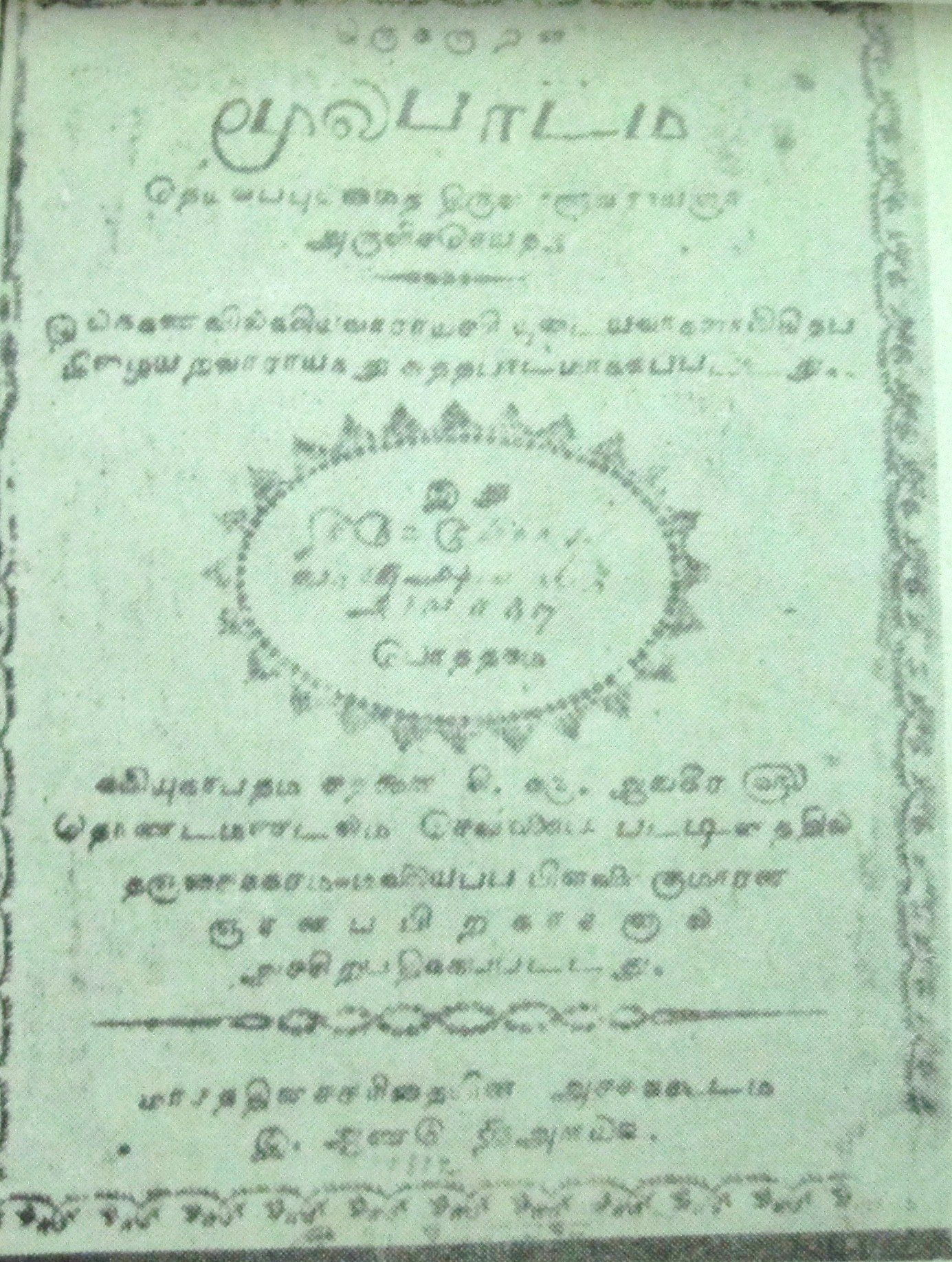 First page of Thirukkural published in Tamil in 1812. This is the first known edition of Thirukkural